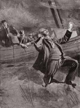 "The Sign of Four" illustrated by F.H. Townsend.